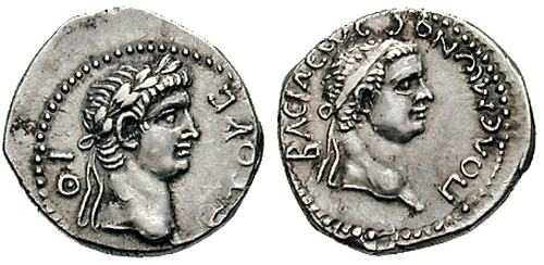 BOSPOROS, Kings of. Polemo II. 38-64 AD with Nero. AR Drachm (3.77 gm). Year 19 (56/57 AD). Diademed head of Polemo right, caption ΕΤΟΥC ΙΘ΄ (year 19)/ Laureate head of Nero right, caption ΒΑCIΛΕΩC ΠΟΛΕΜΩΝΟC (of king Polemon). RPC I 3831; McClean 7390. Lightly toned EF. ($600)